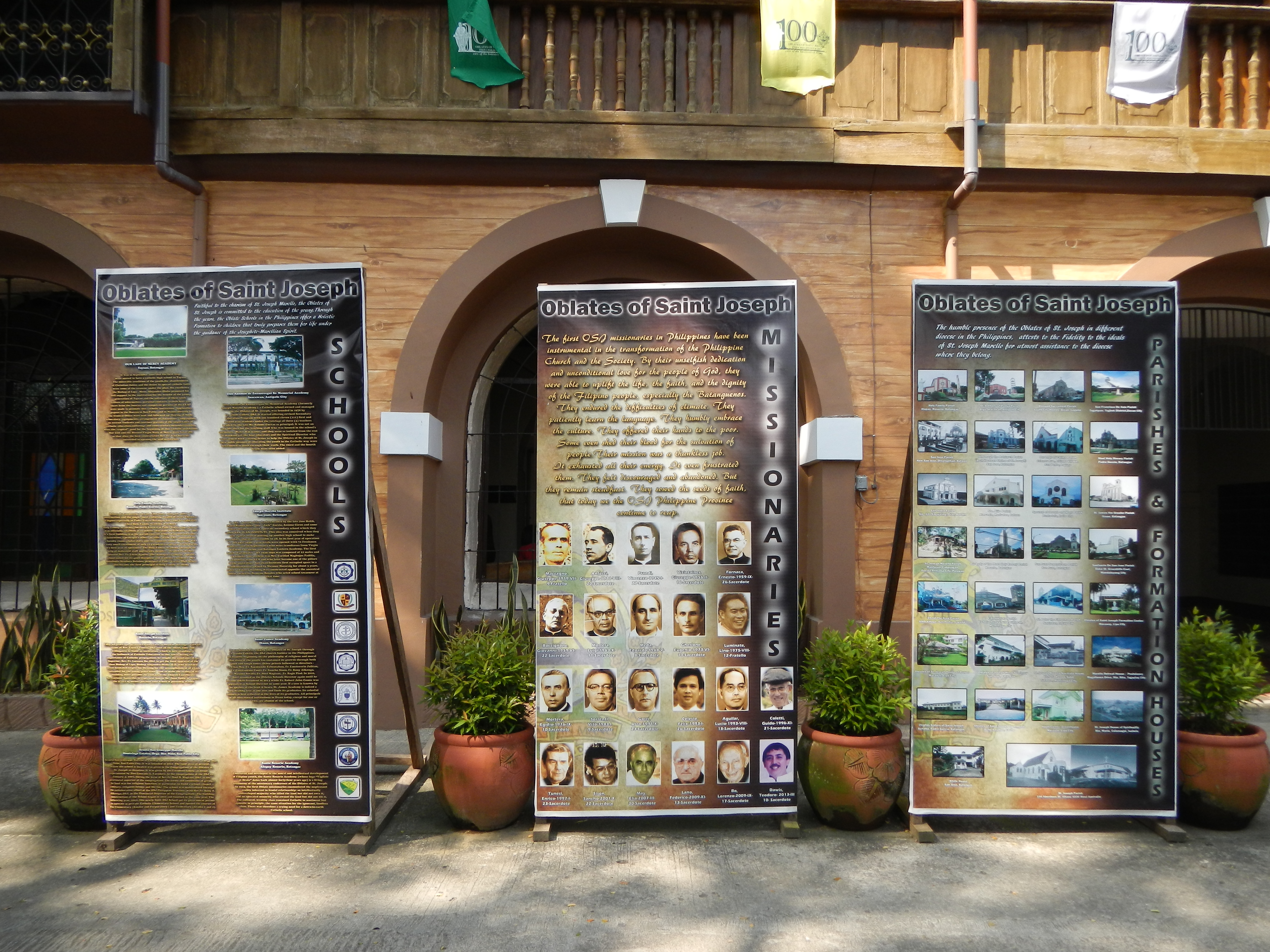 Upload Wizard photos of - the Shrine Convent, Rectory and the ageless facade of the church, the Historic Bell named after N.P.S. Agustin in 1870 damaged by the 1942 earthquake and taken from the belfry in 1953, and the new belfry was completed in 2003 of the Archdiocesan Shrine of Saint Joseph the Patriarch of San Jose, Batangas - St. Joseph the Patriarch Parish Church - Roman Catholic Archdiocese of Lipa[1] - Vicariate IV: Vicariate of Saint Joseph [2] [3] [4] [5] [6] [7]; it was issued a Decree as Jubilee Church on September 17, 2007 - San Jose, Batangas[8] [9] ZIP Code: 4227 area: 53.29 km², established on April 26, 1765, a first class municipality in the province of Batangas, Philippines, latest census, a population of 61,307 people in 10,123 households politically subdivided into 33 barangays).[10].